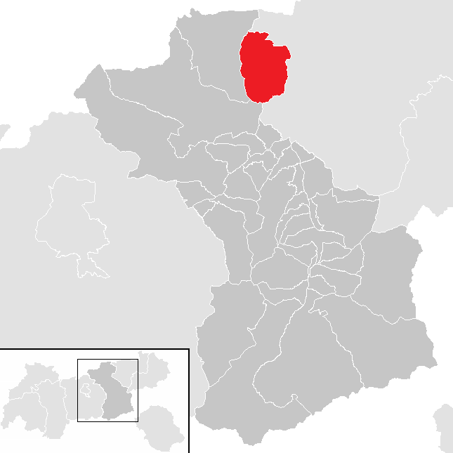 District Schwaz